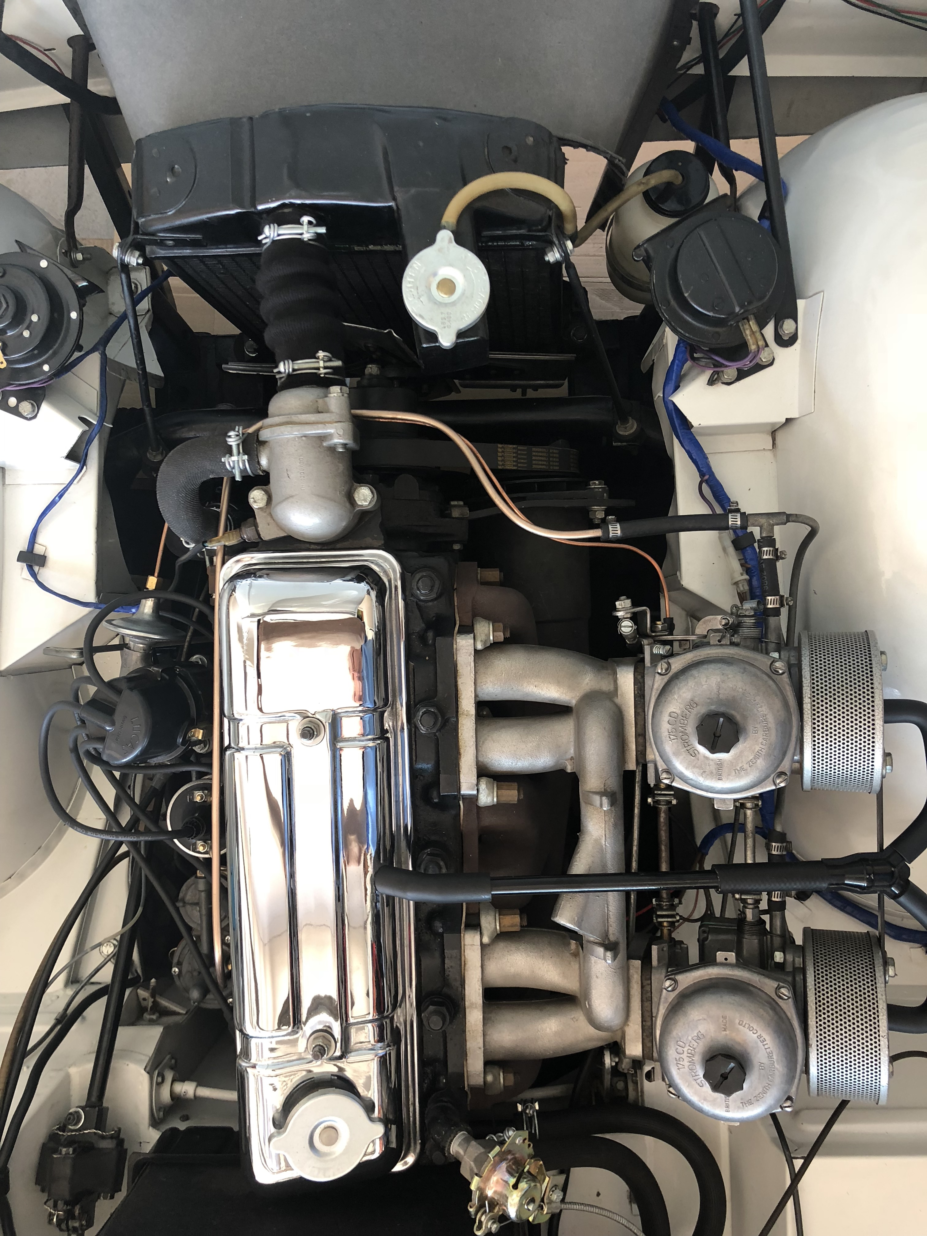 Late TR4 engine layout showing twin Stromberg carbs on short neck radiator.